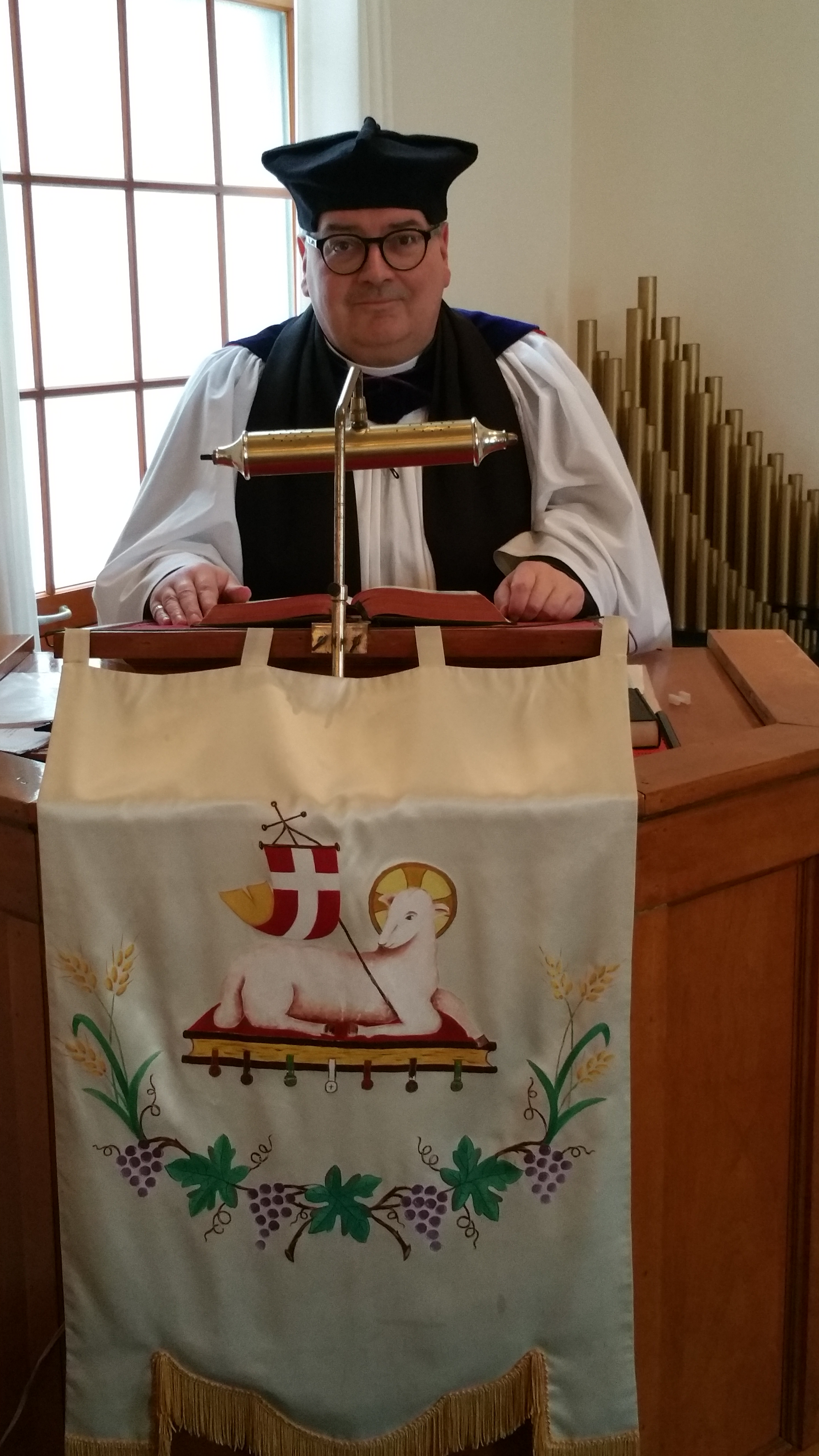 An Anglican priest delivering a homily; he is wearing choir habit and a Canterbury cap.